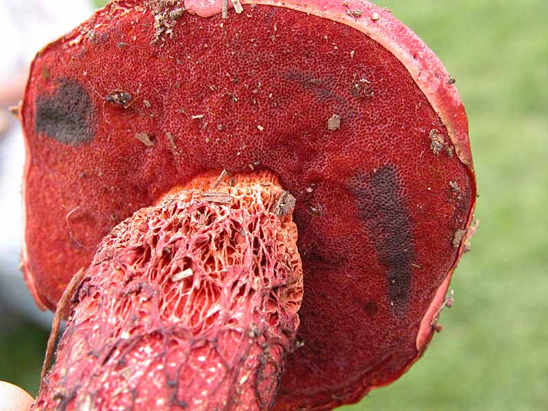 The mushroom Boletus frostii Russell. Photographed in Great Brook Farm State Park, Carlisle, MA, USA.